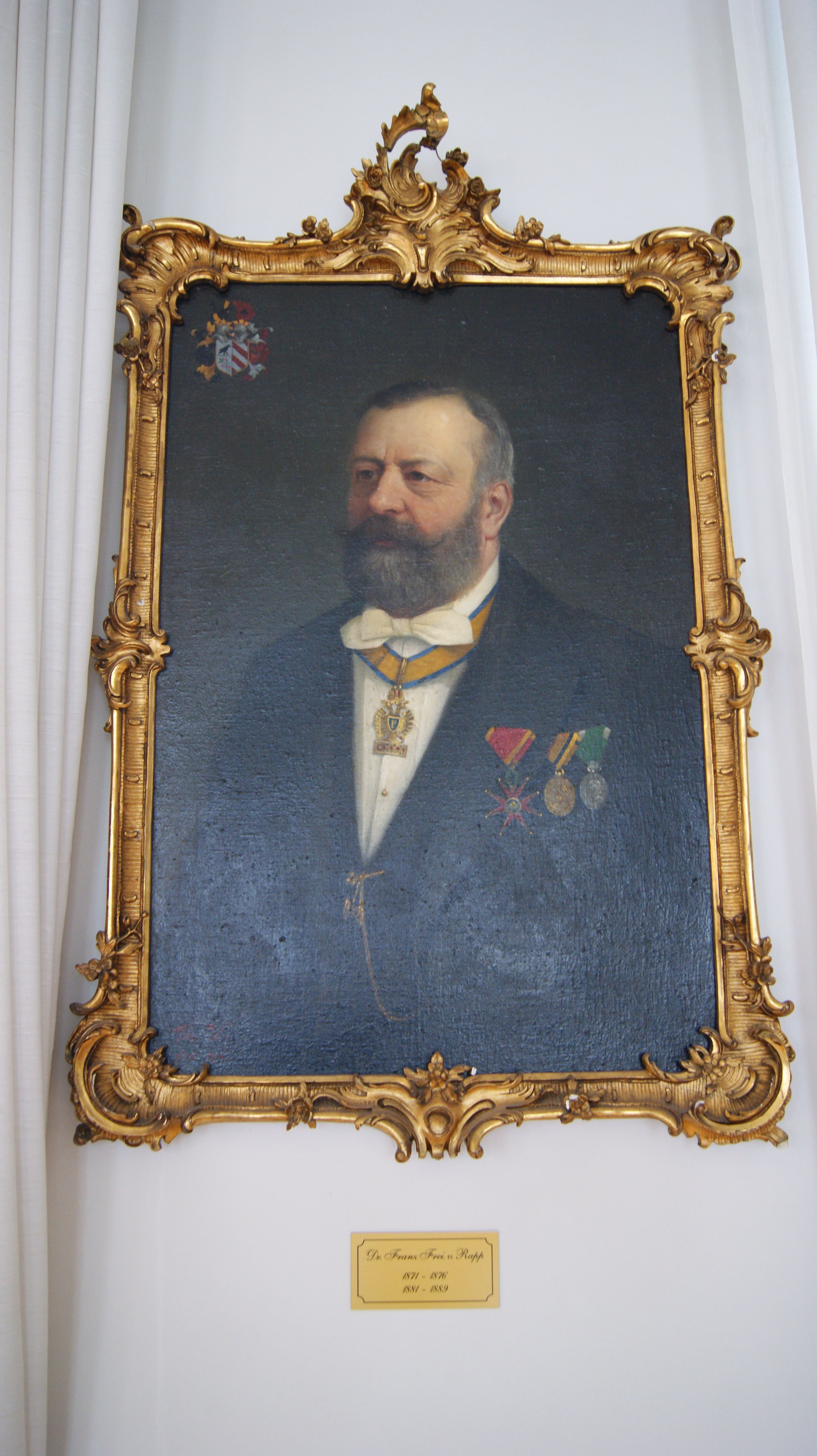 Franz von Rapp, head of the Provincial Government of Tyrol.